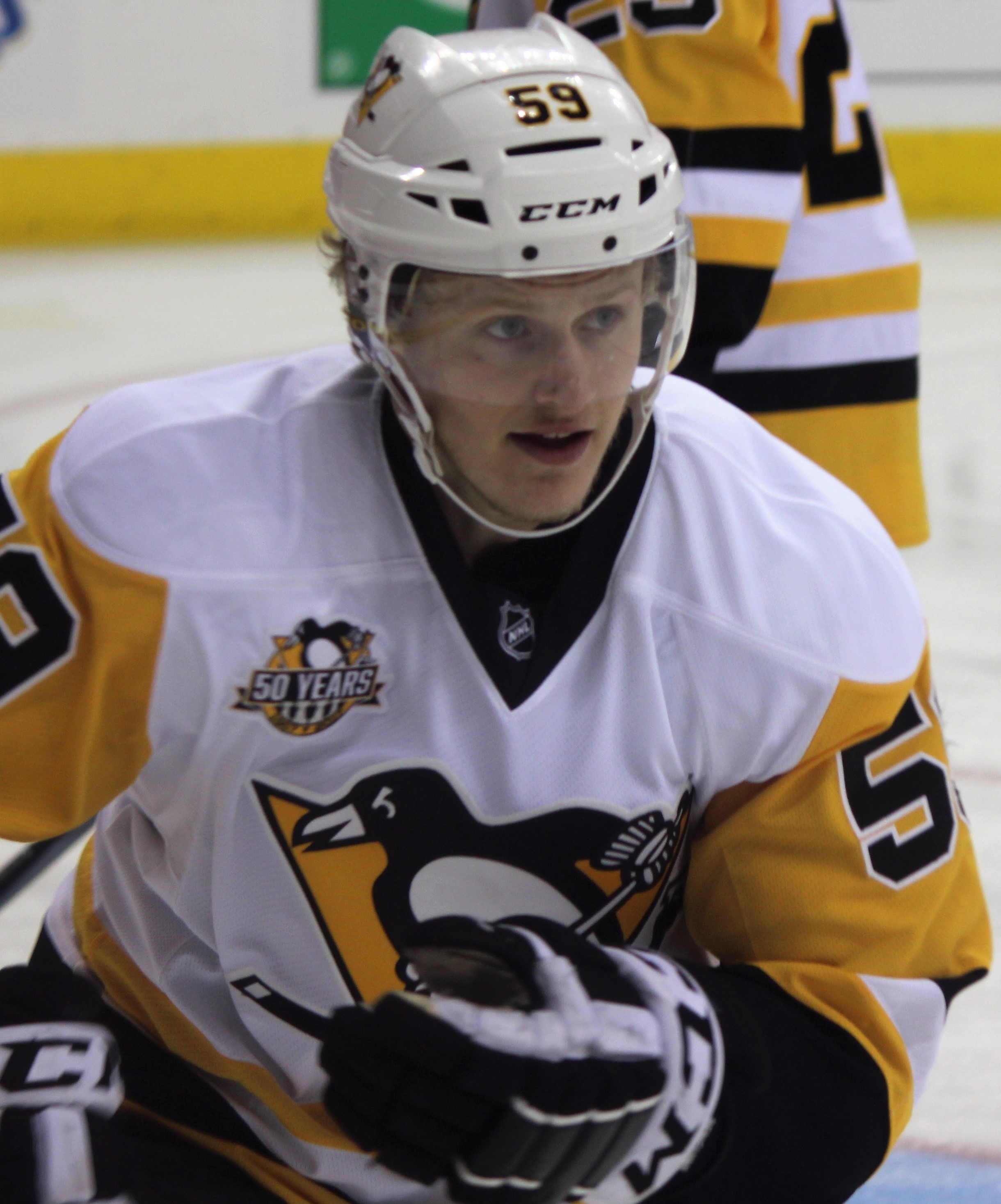 Pittsburgh Penguins forward Jake Guentzel warms up prior to a second round playoff game against the Washington Capitals, April 27, 2017, at Verizon Center in Washington, D.C.